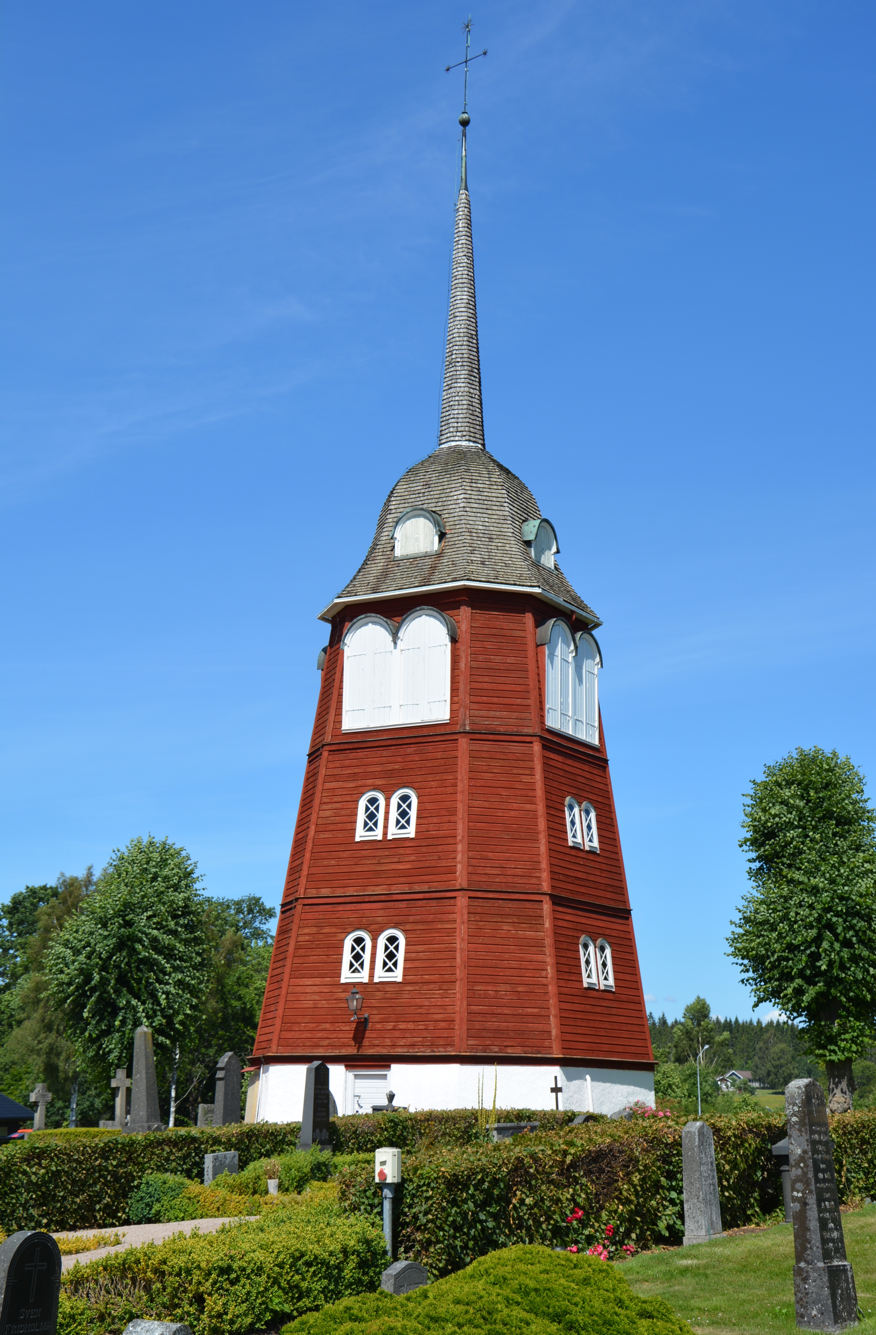 Fridlevstad Church.The bell-trestle built in 1749